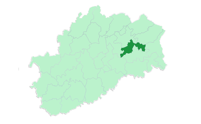 Canton of North Lure